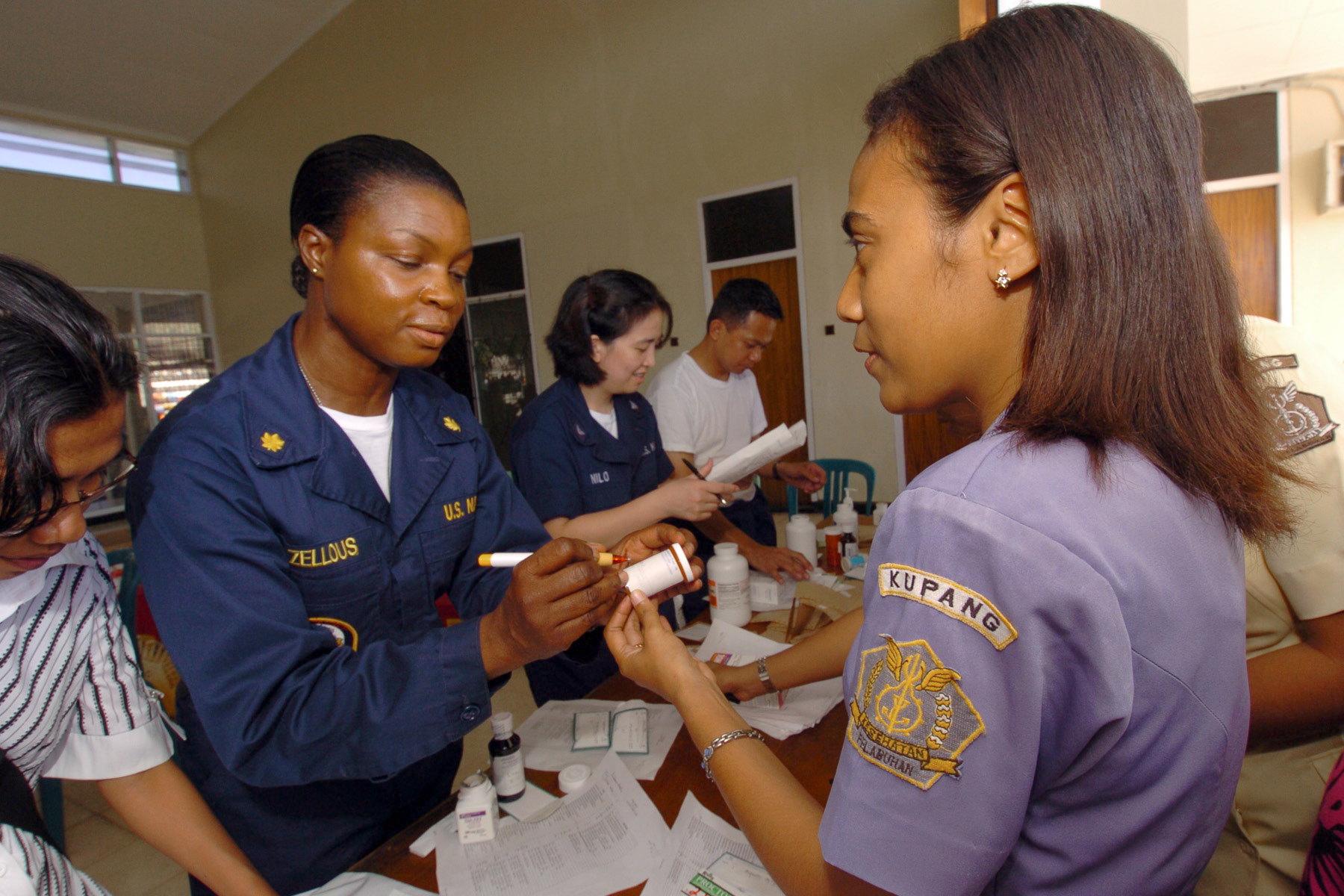 Kupang, Indonesia (Aug. 23, 2006) - U.S. Navy Lt. Cmdr. Sheron Zellous of San Diego, explains to an Indonesian assistant the proper use of the medications being dispensed to a patient during a medical and dental care civil action project, provided by the Military Sealift Command (MSC) hospital ship, USNS Mercy (T-AH 19). Mercy is in the fourth month of her five-month humanitarian and civic assistance deployment to South and Southeast Asia where her crew has already treated thousands of people. U.S. Navy photo by Chief Mass Communication Specialist Edward G. Martens (RELEASED)